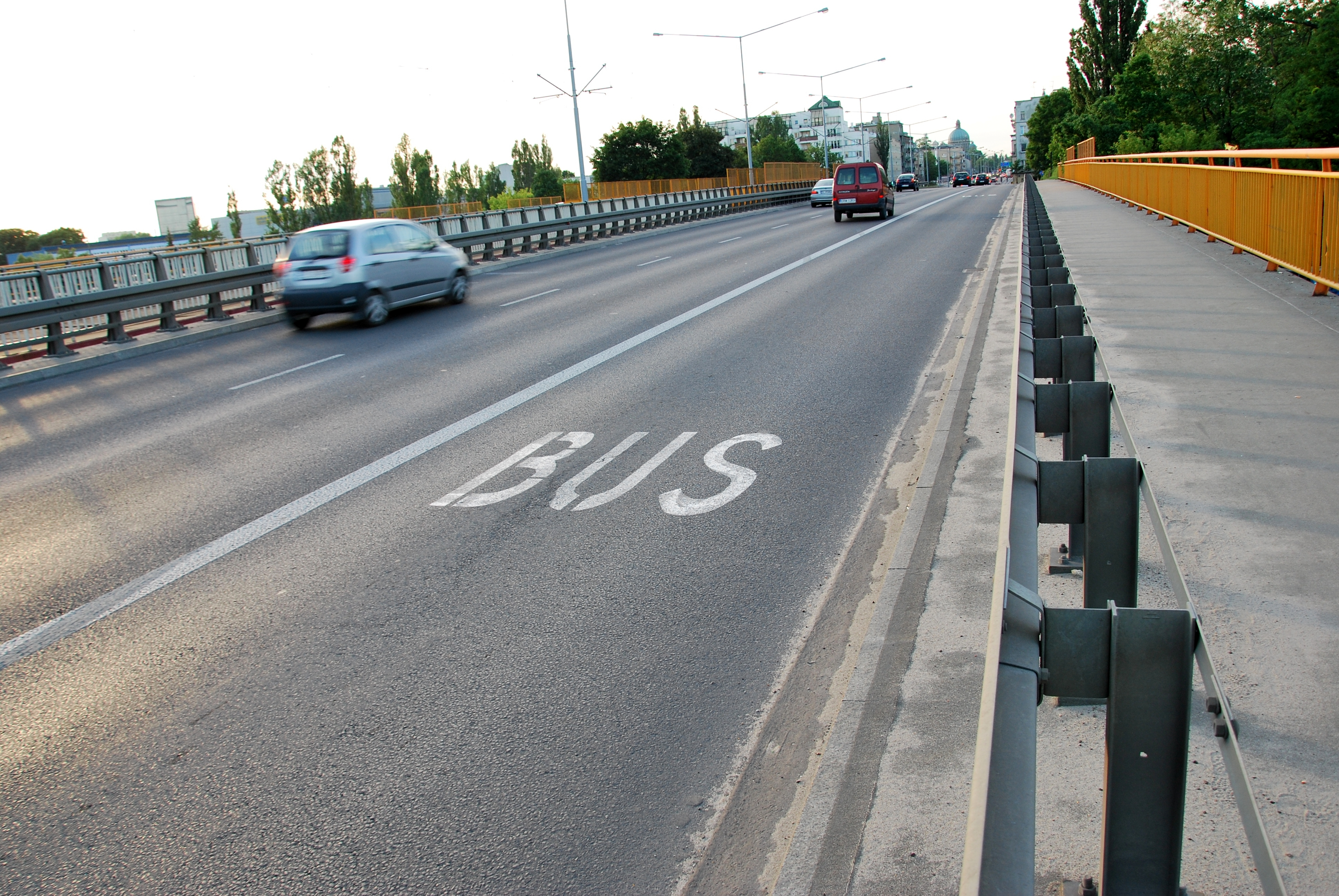 Bus lane, Łódź Kopcińskiego Street